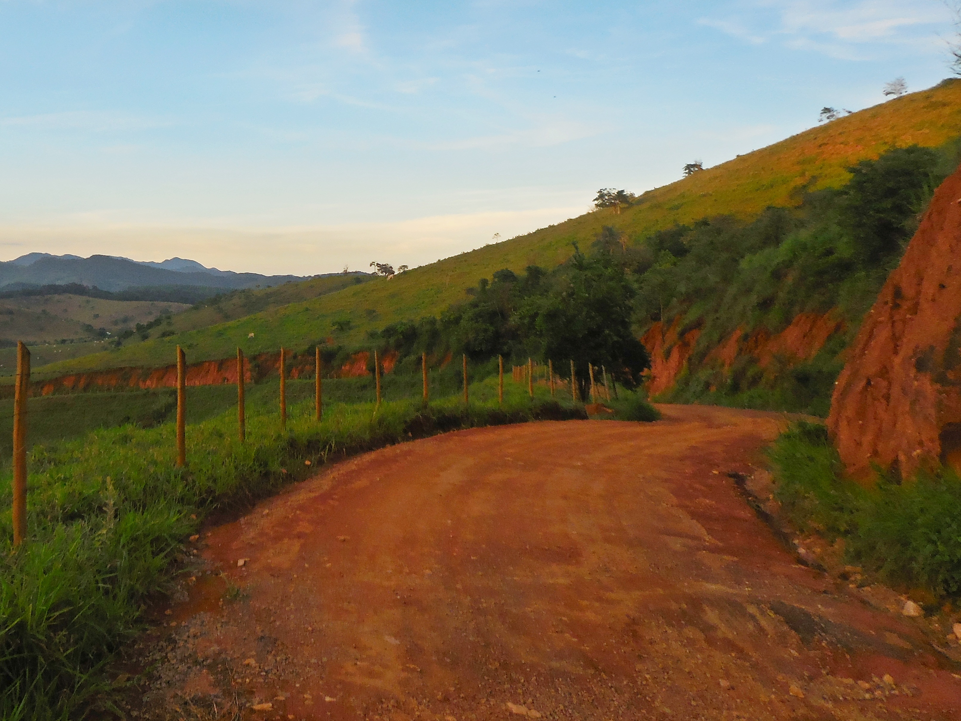 Stretch of the MG-320, in São José do Goiabal, Minas Gerais, Brazil.